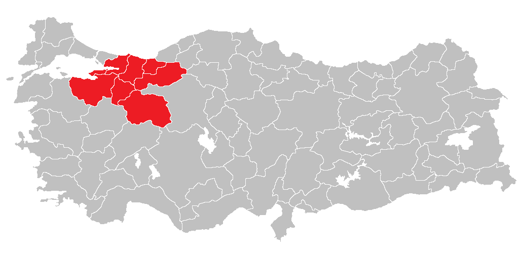 Eastern Marmara Region, a statistical region in Turkey